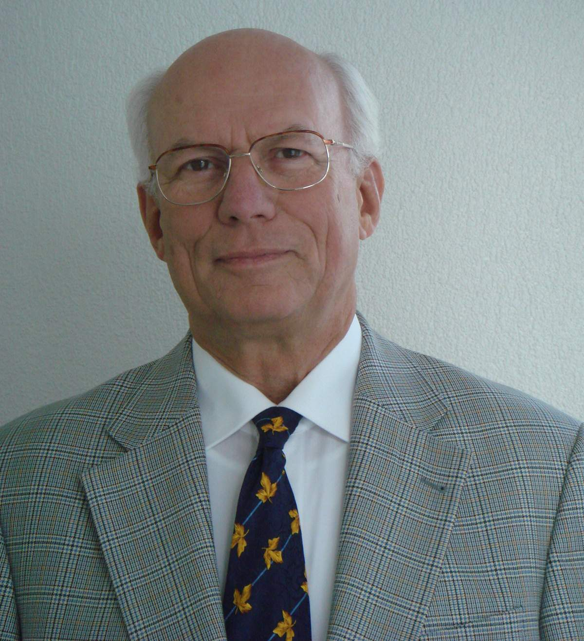 Photo of Ralf Steudel / Chemist, Institute og Technilogy Berlin (Germany)